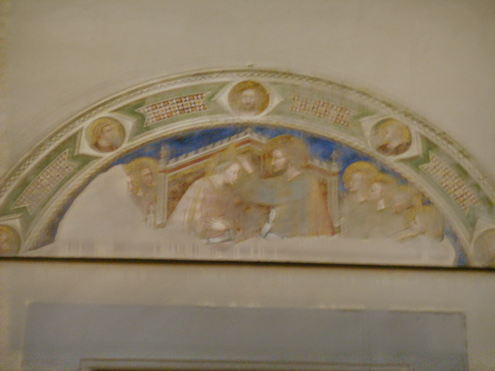 Santa Croce museum, refectory, Orcagna fresco, in Florence, Italy